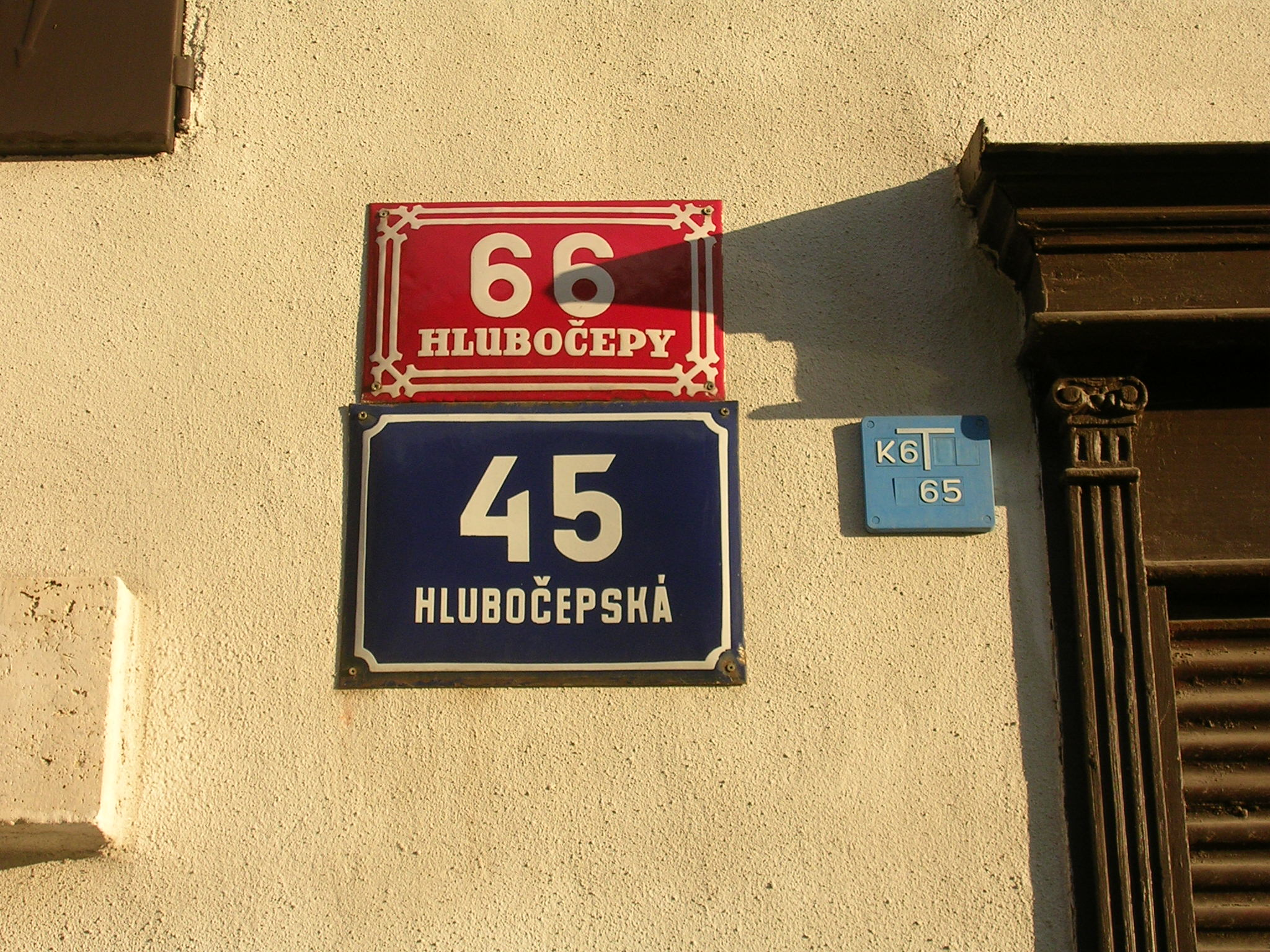 Hlubočepy, Prague, the Czech Republic. House numbers.